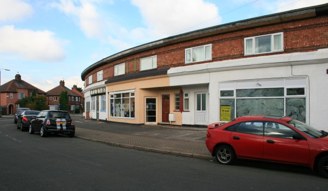 Lilac Crescent A crescent of estate shops, now nearly all converted to houses.